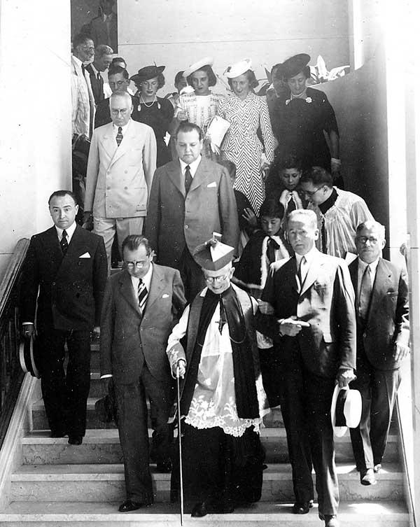 El gobernador de la provincia, Miguel Campero, junto al Obispo Bernabé Piedrabuena, y Juan Heller, presidente de la Corte Suprema de Justicia de la Provincia de Tucumán, inauguran el nuevo Palacio de Tribunales.